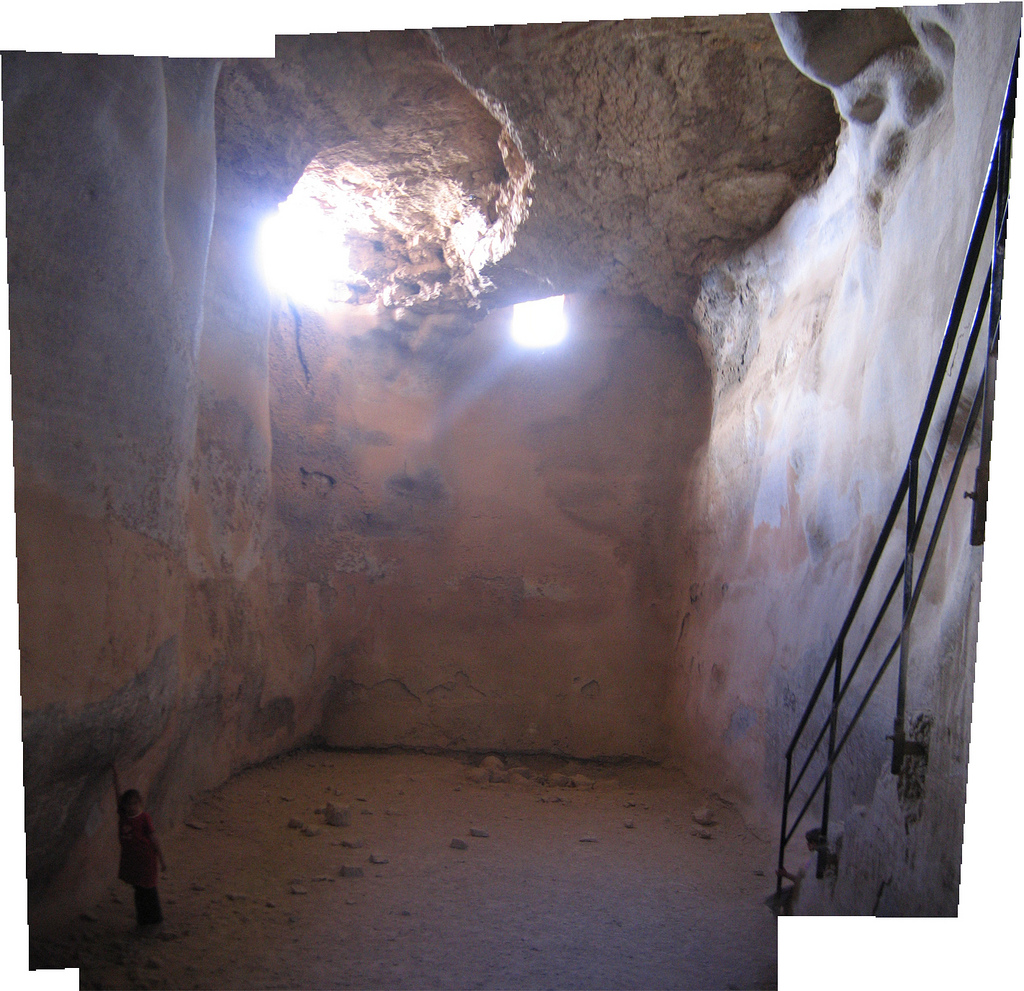 Masada - Northern Water Reservoir, Archeological sites of Israel